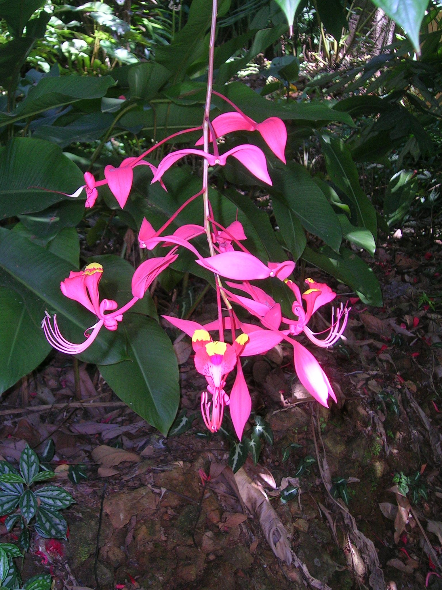 Amherstia nobilis